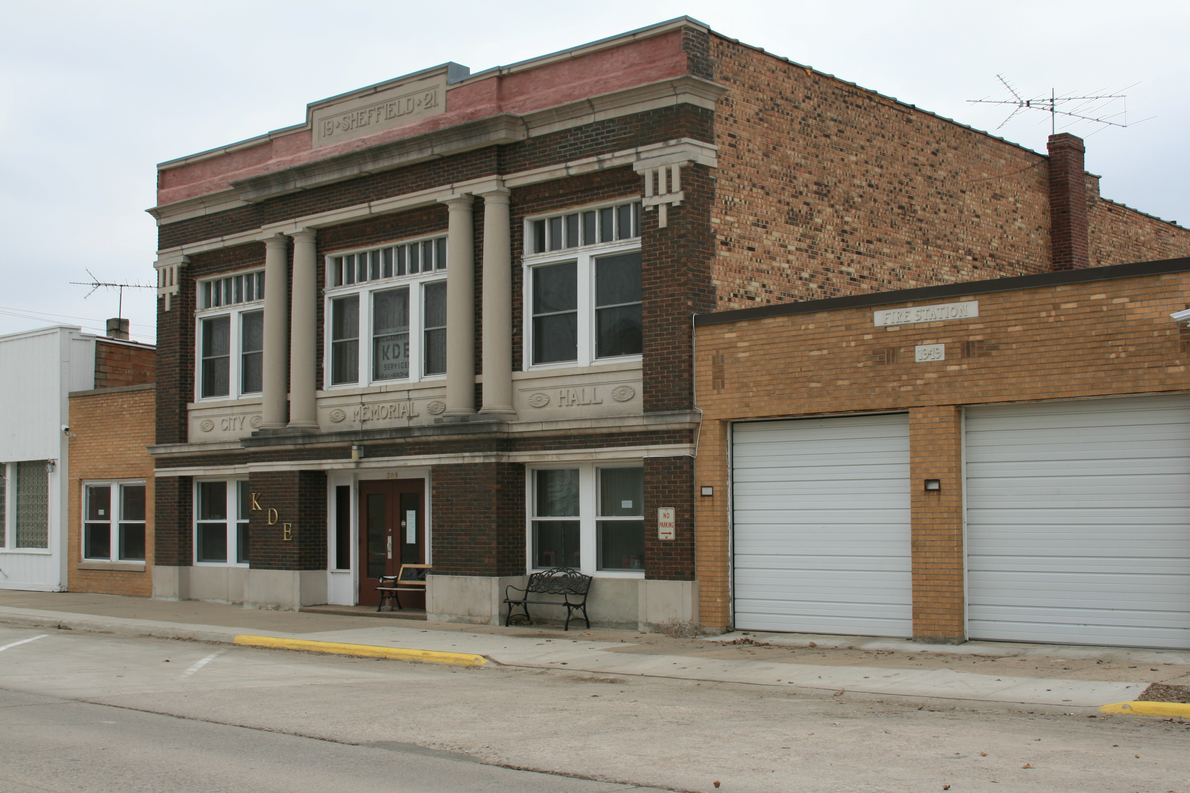 Old City Hall and Fire Station buildings in Sheffield, Iowa